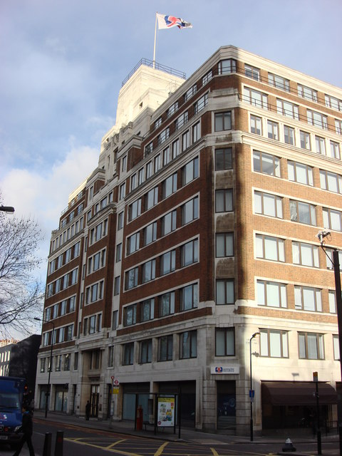 Euston House, Eversholt Street, NW1 Hurst Peirce & Malcolm were engineer for Euston House built by London Midland and Scottish Railways in the 1930s. It was ‘fast track’ construction of its time with just 11 months elapsing between site possession and occupation during which time 150,000 square feet of office was constructed and fitted out. Euston House was the headquarters of the LMS until nationalisation in 1948. the building was then HQ of British Rail until privatisation in stages from 1994 to 1997